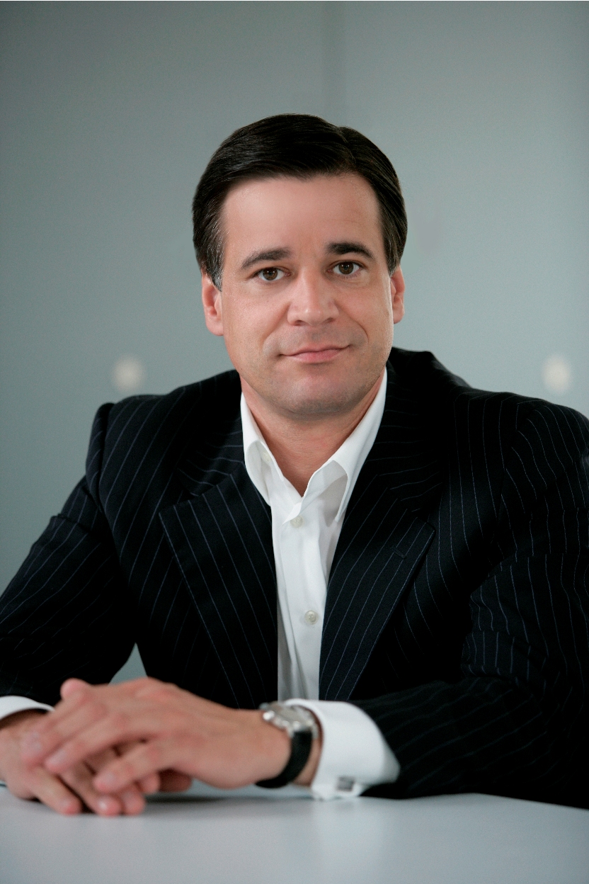 Michael Raum, CEO of SELLBYTEL Group GmbH